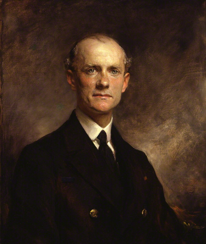 Alfred Francis Blakeney Carpenter, by Sir Arthur Stockdale Cope, oil on canvas, 1918